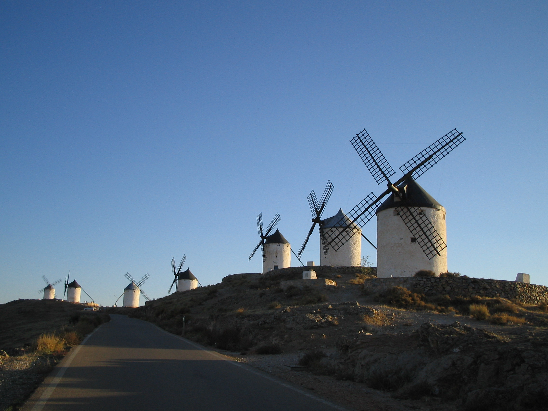 Windmills in Consuegra